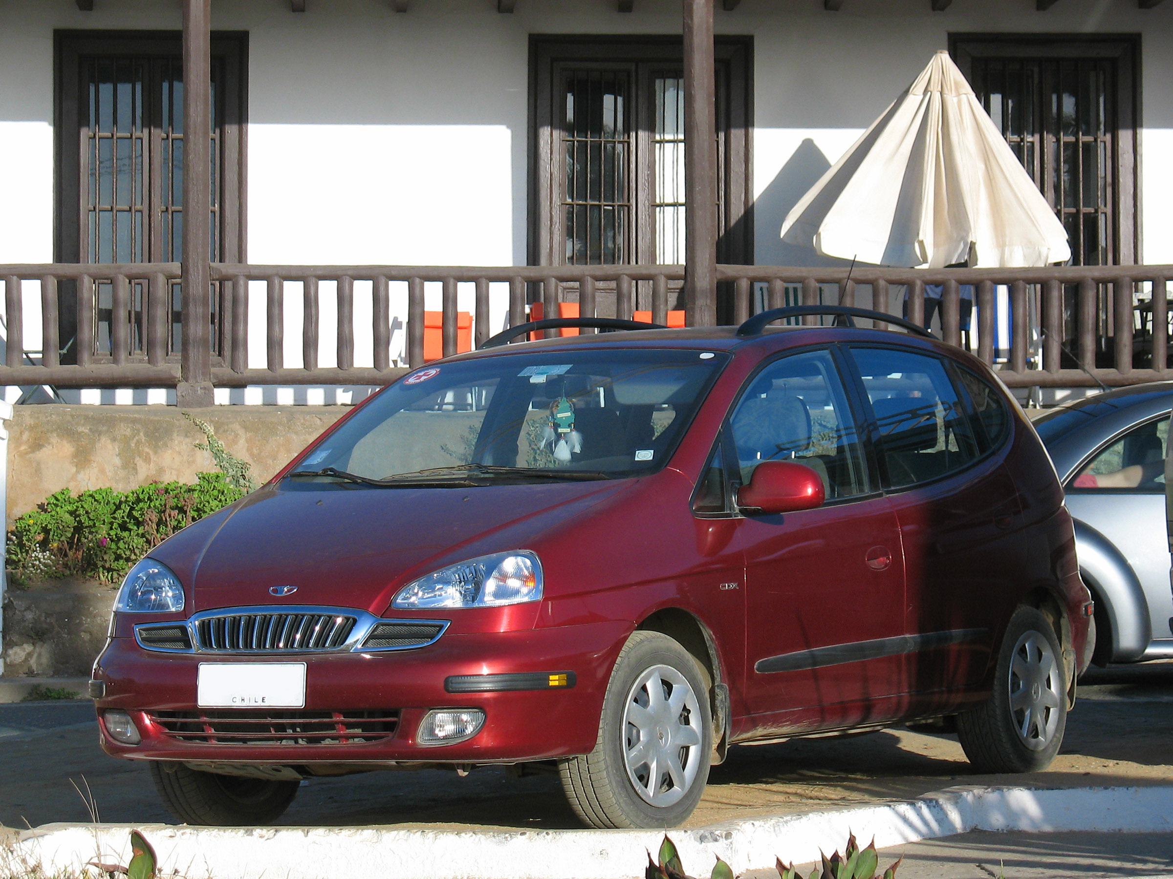 Spotted in iLoca, ChiLe